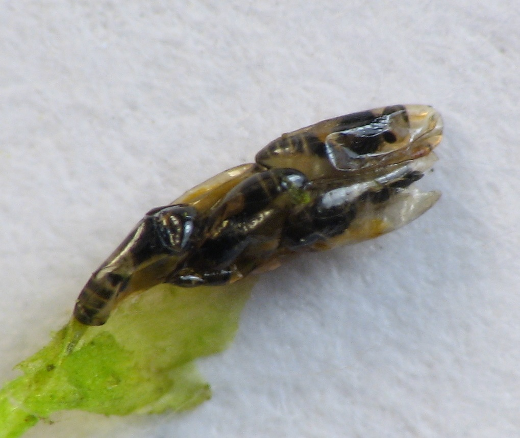 Pupae of parasitic wasp, Platygaster, in goldenrod pedicellate gall. Size: 1 mm. Cluster 3 mm. Horsham trail. Horsham, Montgomery County, Pennsylvania, USA.